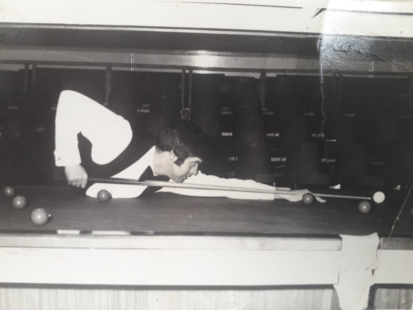 David Greaves in a Tournament in the Commonwealth club (Blackpool) in 1980.